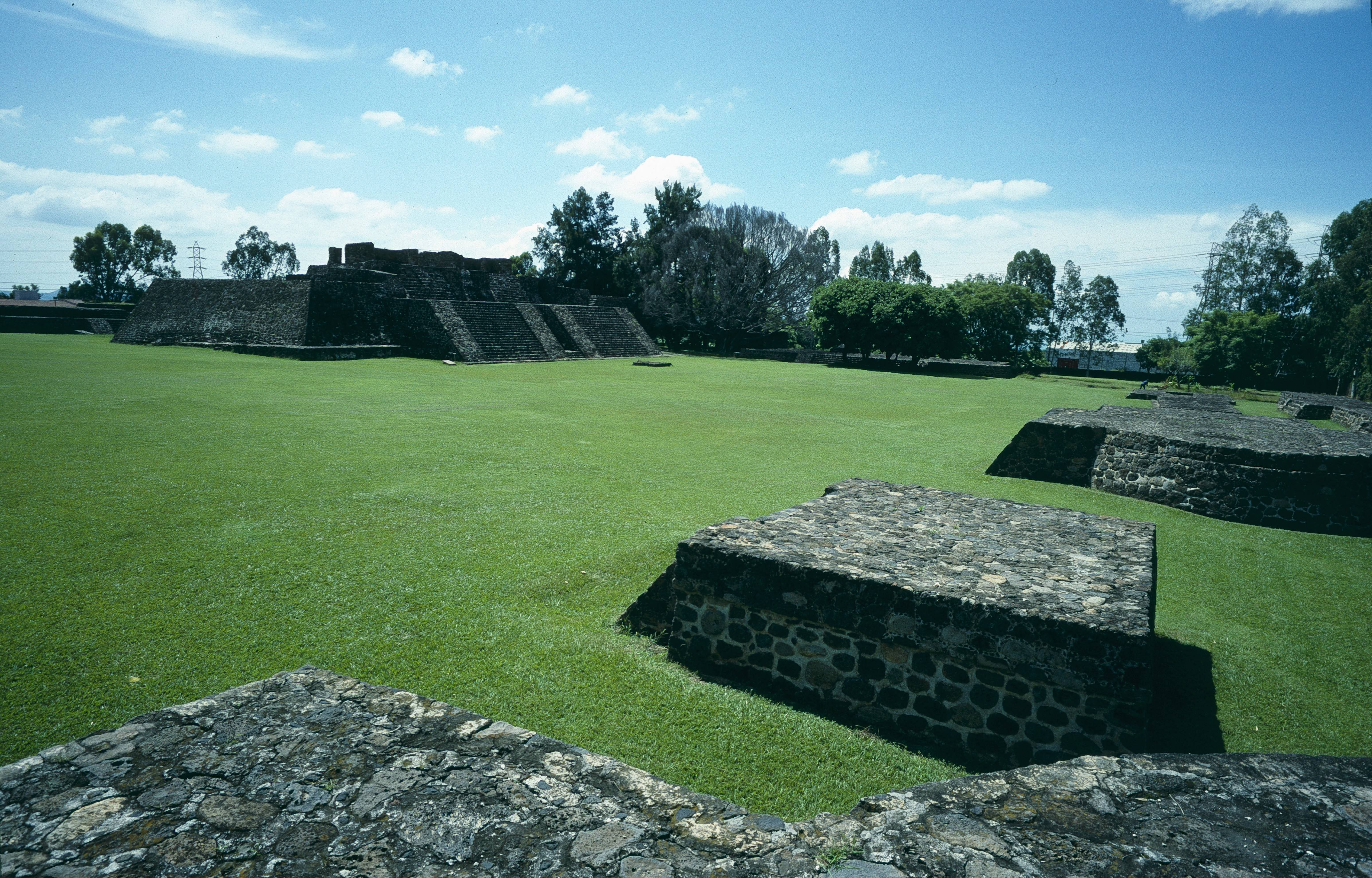 Teopanzolco, Cuernavaca, Morelos, Mexico: courtyard